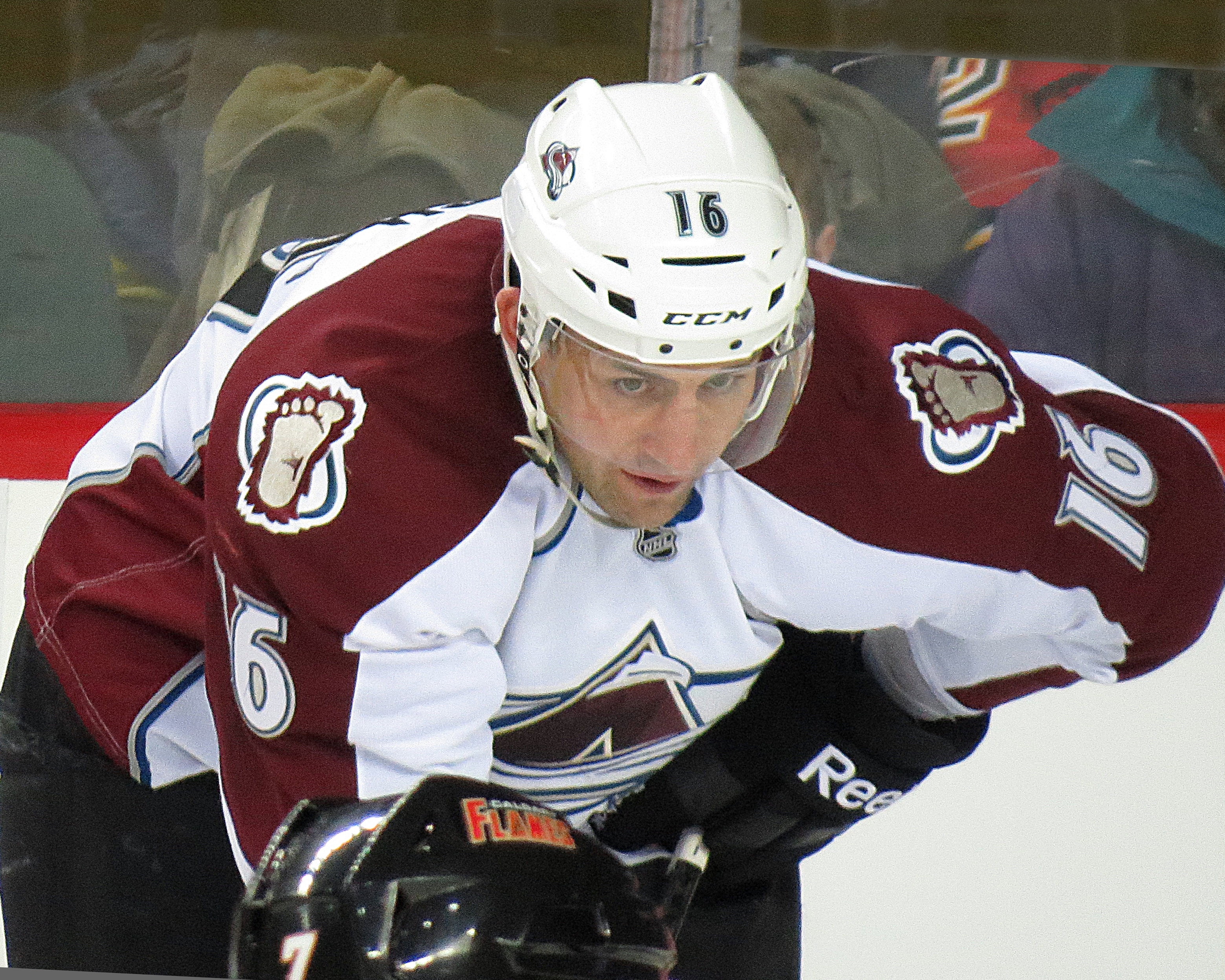 Cory Sarich of the Colorado Avalanche during the 2013–14 season.